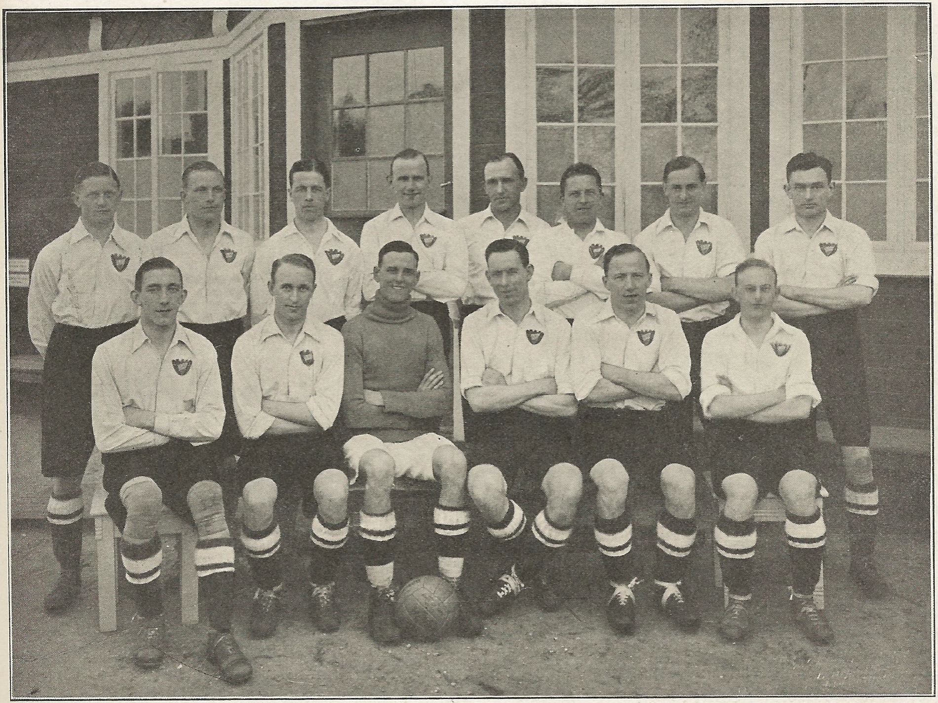 Regular team line-up including reserves of Boldklubben af 1893 — Group photo of the team including reserves participating in 1926/27-season of KBUs Mesterskabsrække (Copenhagen Football Association) and Landsfodboldturneringen (Danish Football Association), in 1927.